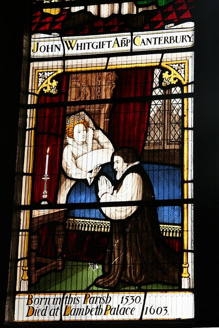 John Whitgift window detail Detail of the John Whitgift stained glass window showing one of Grimsby's most famous sons at the deathbed of Queen Elizabeth I